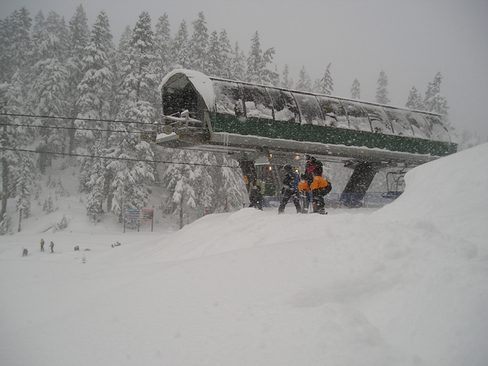 Photo taken by myself at the top of Armstrong Express (also known as chair 1) on opening day 2005. The picture is a collection of what I call my "photo of the week" that comprise a history of events over the years located at my website I call "Hyak Ski and Snowboard Adventure". This photo was taken on my first run of the day (and season) on Dec. 3, 2005, opening day of Alpental.